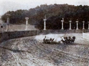 Still from the American drama film The Queen of Sheba (1921) of the chariot race between the Queen of Sheba and Princess Vashti, on page 71 of the September 24, 1921 Exhibitors Herald.